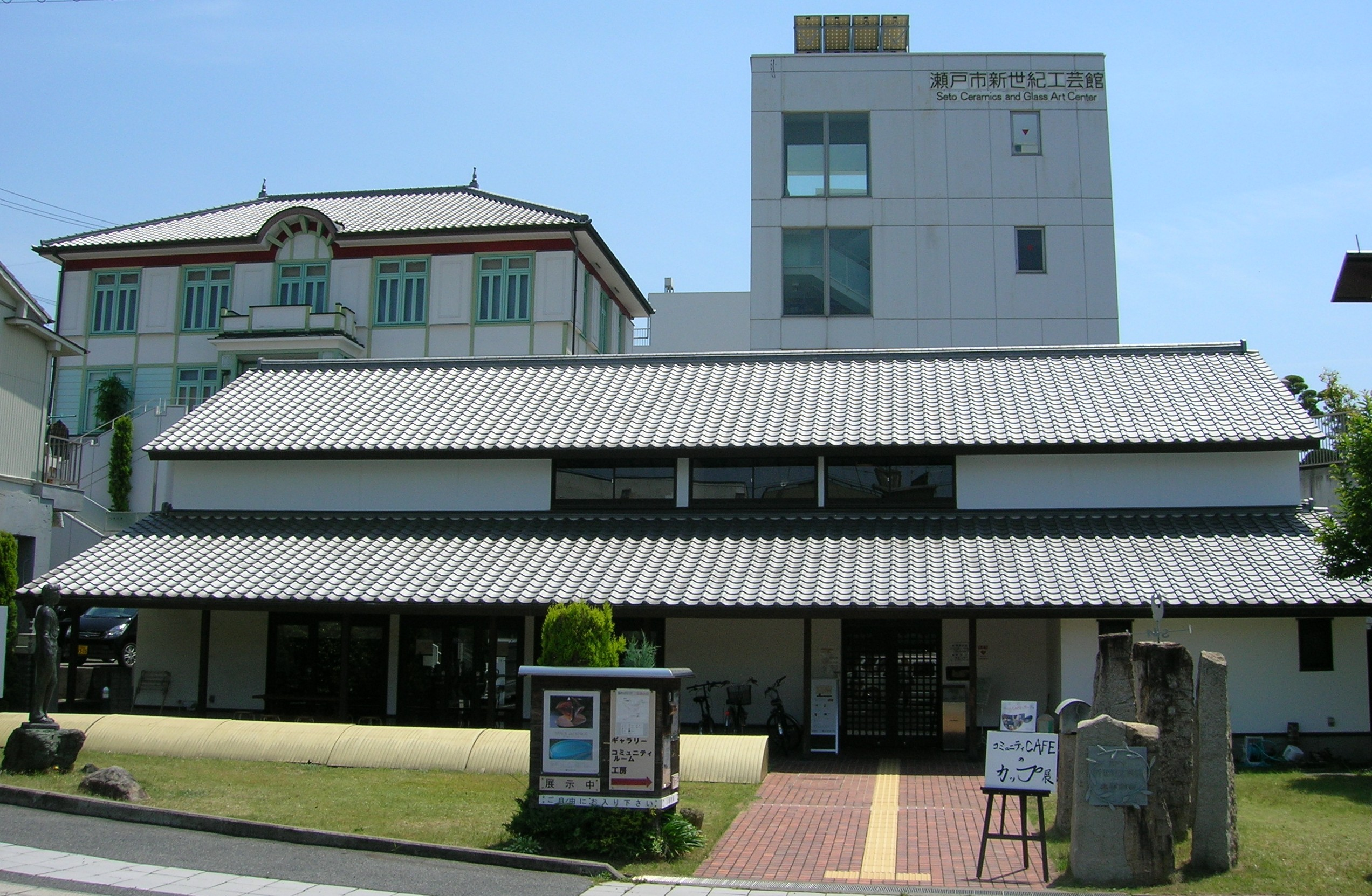 Seto Ceramics and Glass Art Center Loc: Seto city, Aichi Prefecture, Japan. 瀬戸市新世紀工芸館・交流棟（正面）、工房棟（右奥）、展示棟（左奥） 撮影場所 愛知県瀬戸市